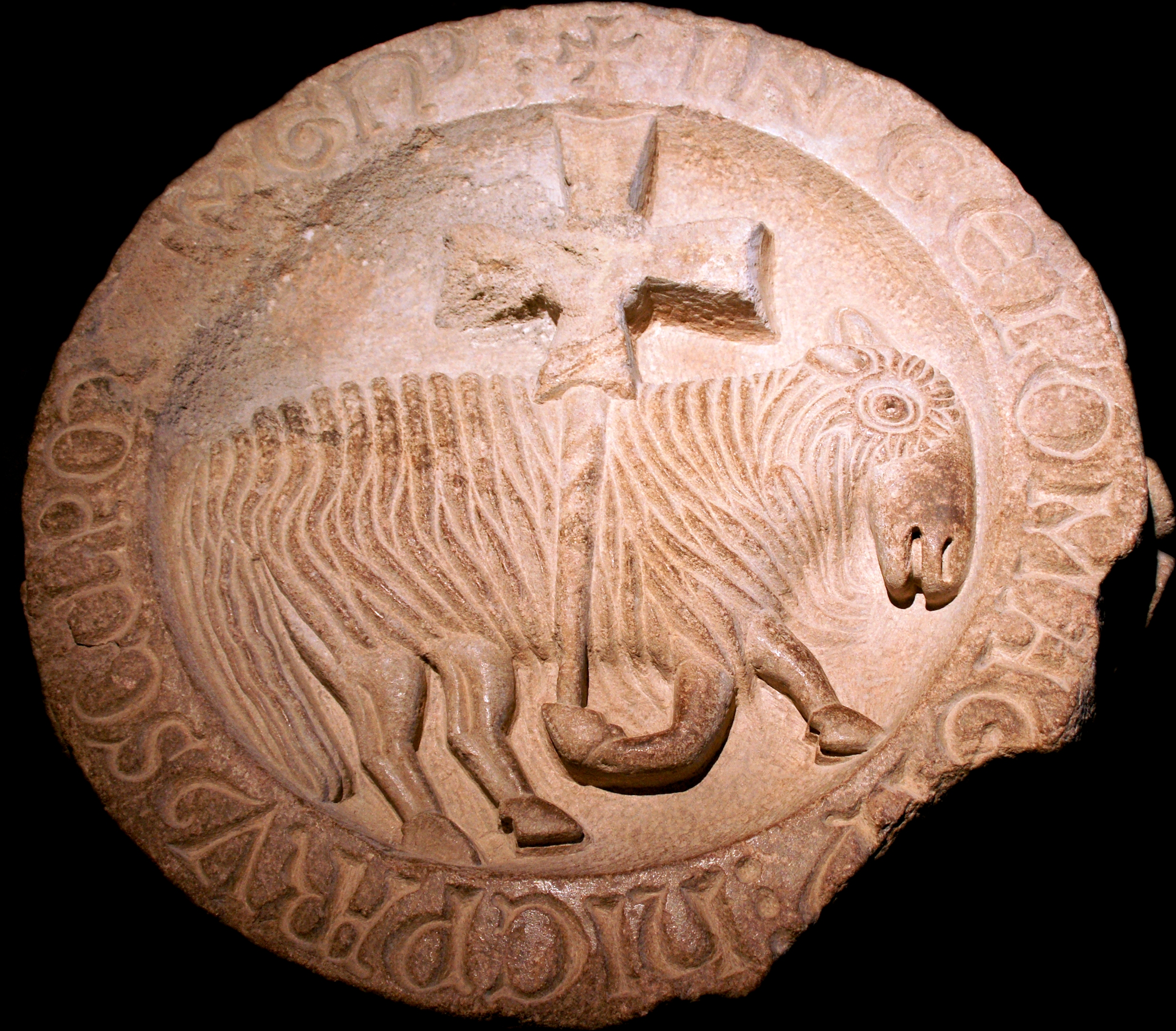 The Paschal Lamb was the centerpiece of the fifth bay of the narthex of the Abbey of Cluny. The Latin inscription: HIC PARVUS SCULPOR AGNUS IN CELO MAGNUS means "here I am carved like a little lamb, in heaven I'm great"